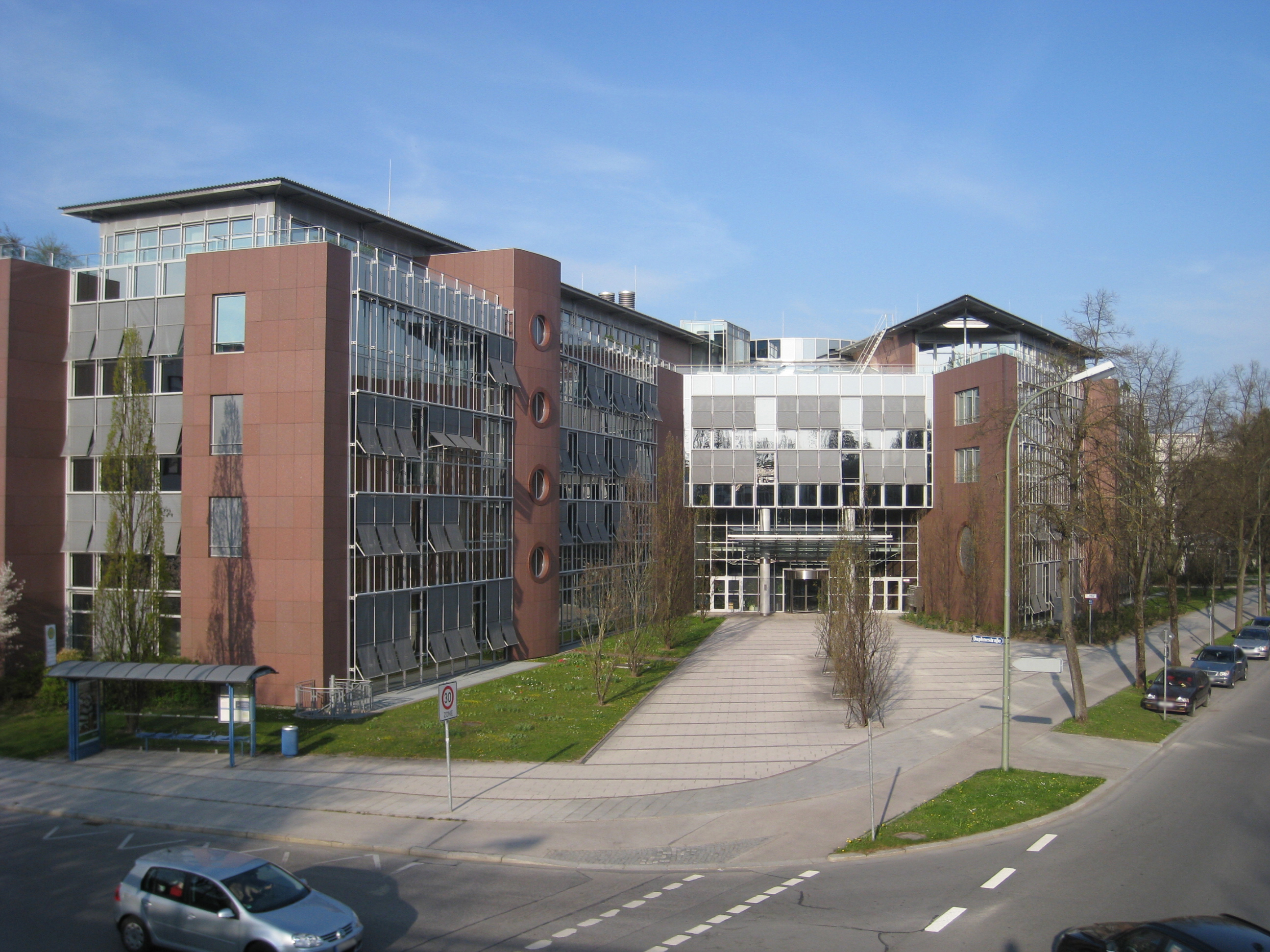 Office building of Schörghuber Group in Munich, headquarters